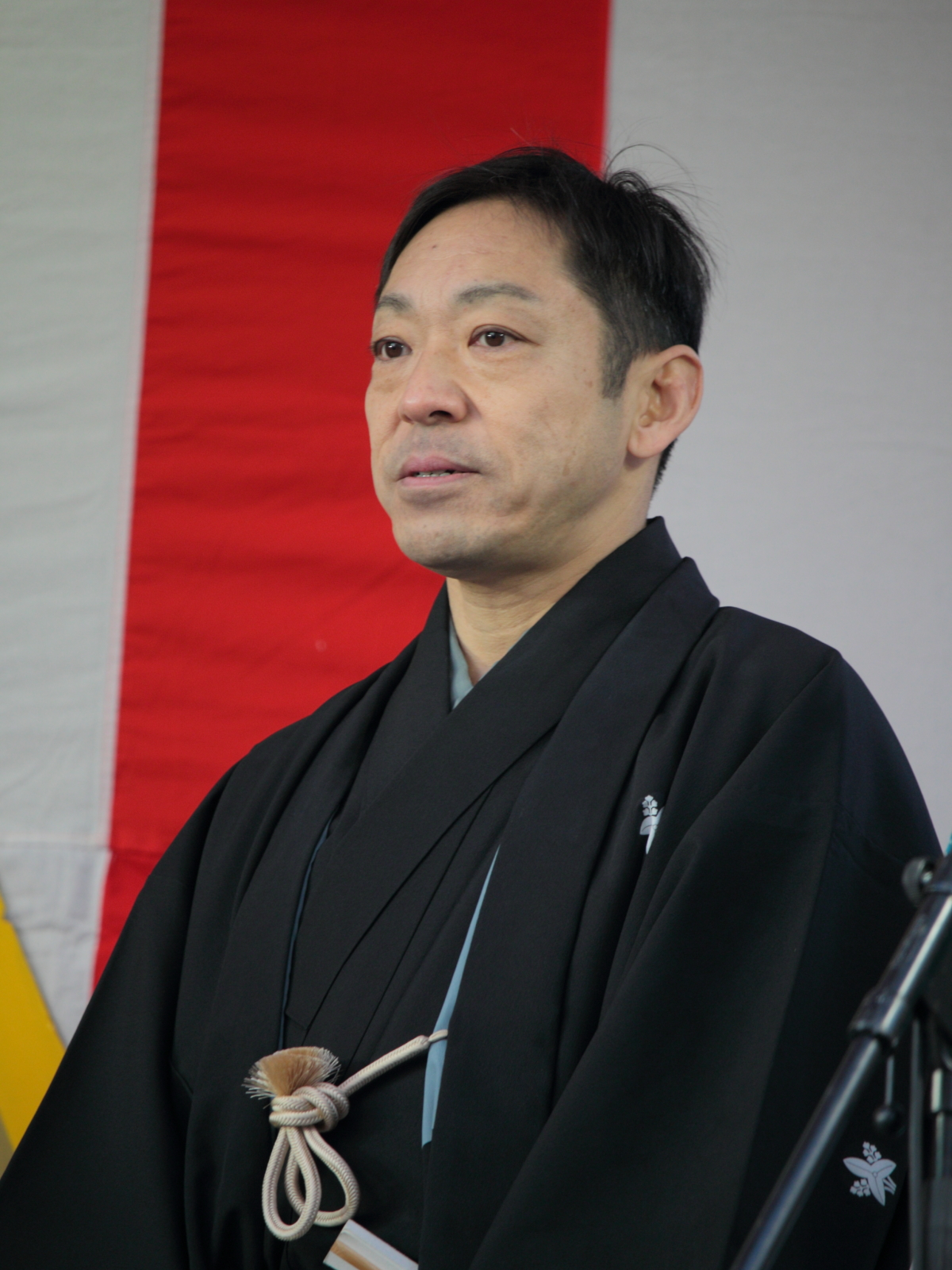 Ichikawa Chusha IX (Teruyuki Kagawa).